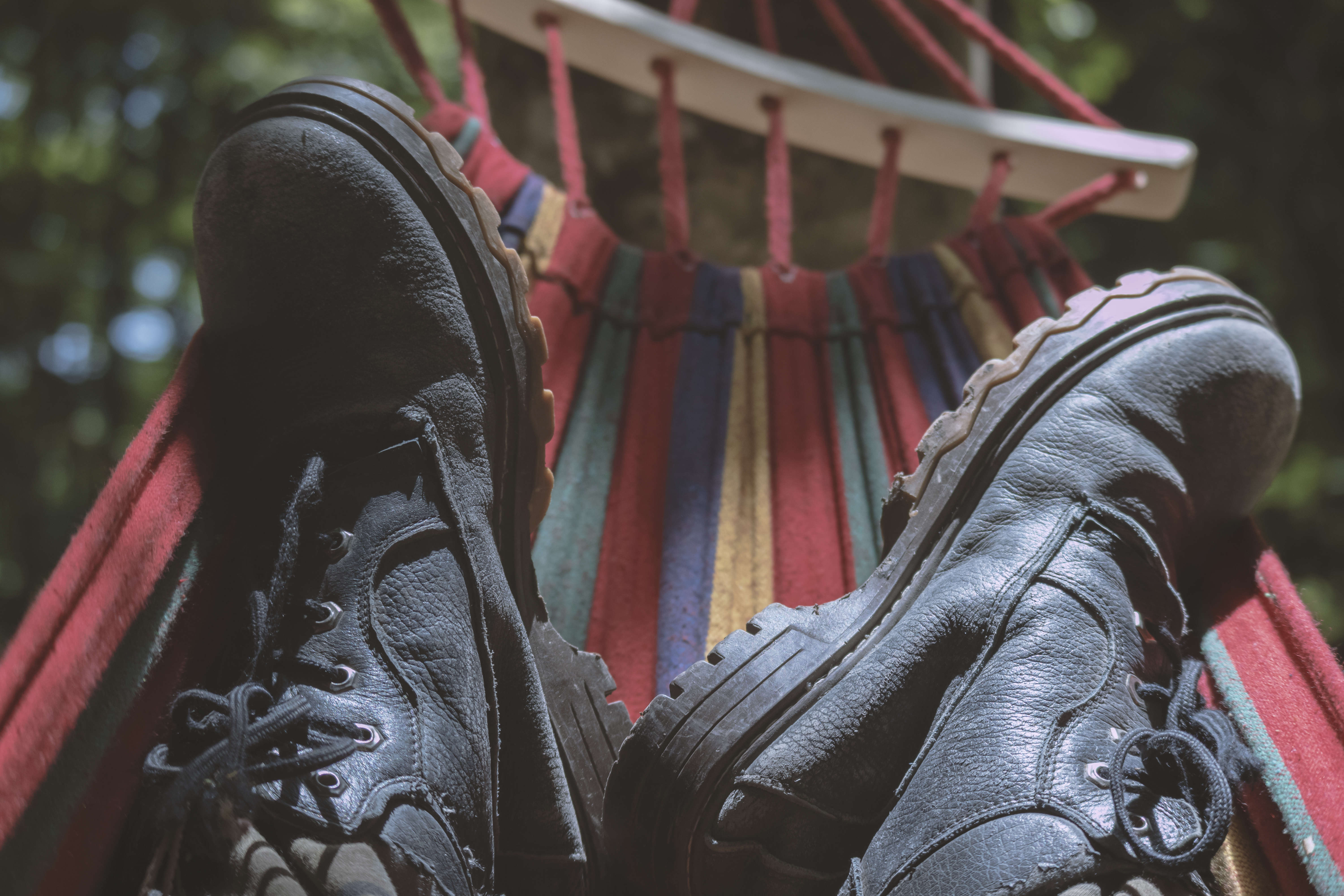 Nur County is a county in Mazandaran Province in Iran.